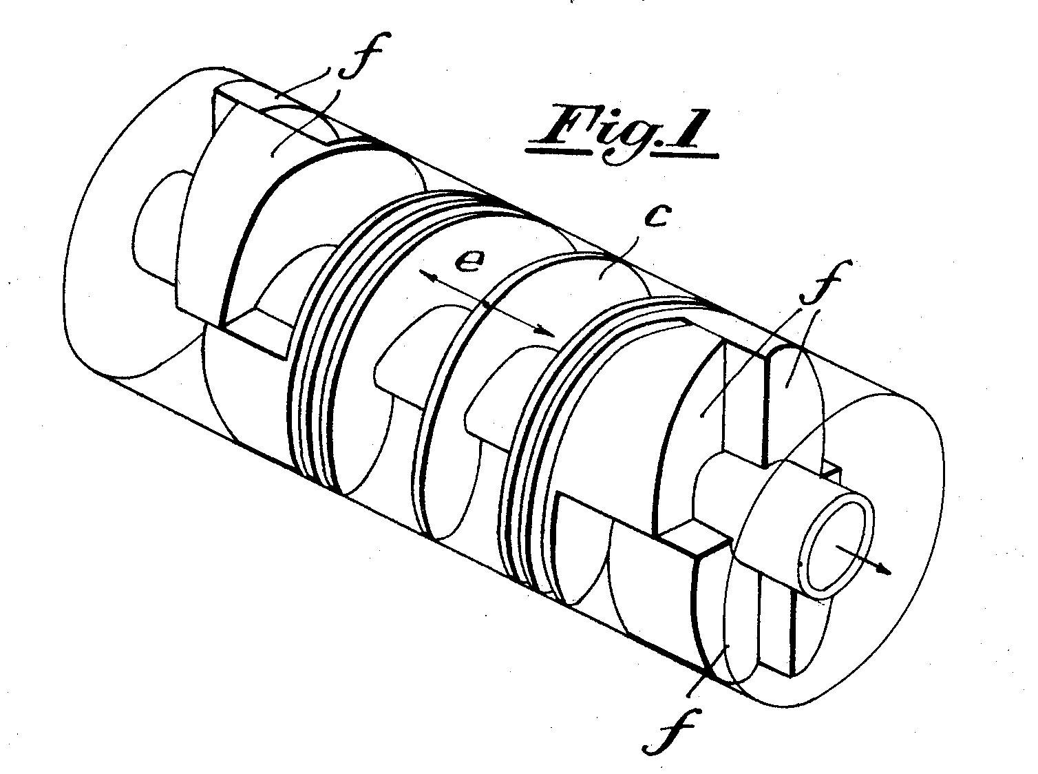 Rotary compressor and other engines User:MichaelFrey/US2301667